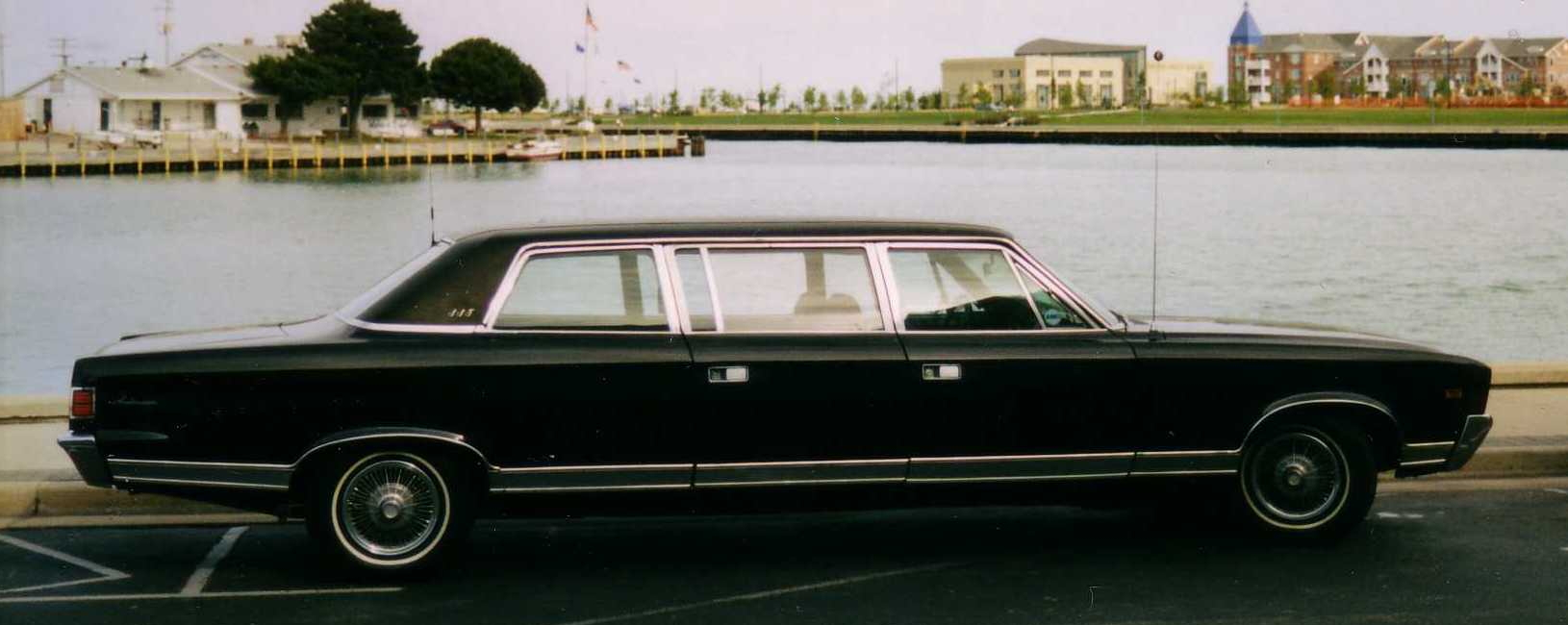 1969 American Motors Corporation (AMC) Ambassador limousine